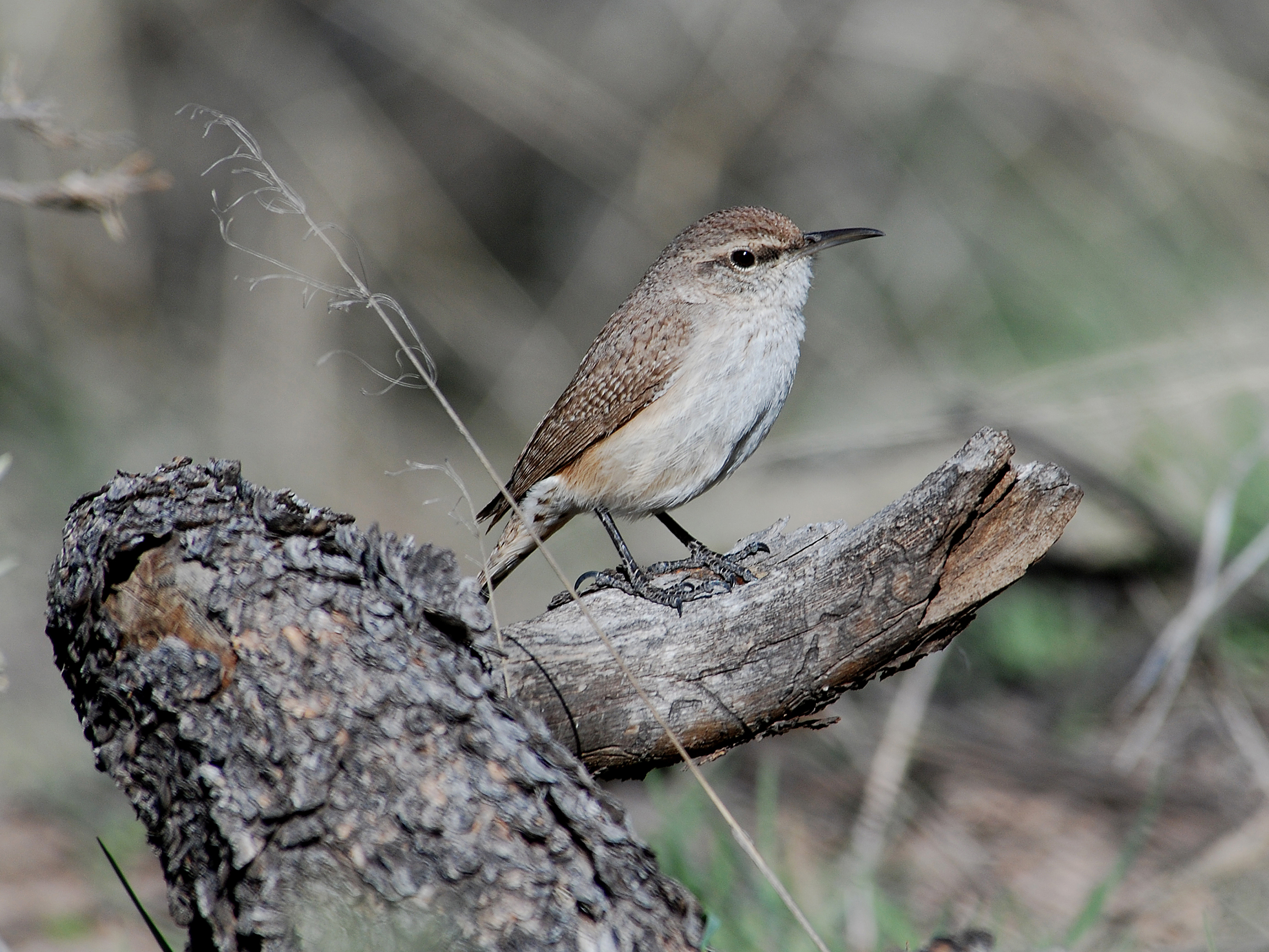 Salpinctes obsoletus, Tyuonyi Pueblo, Bandelier National Monument, New Mexico, USA.